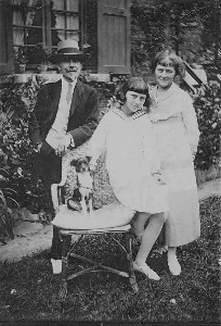 The Belgian painter Emile Bulcke (1875-1963) with his wife and daughter; collection of Mu.ZEE, Ostend, Belgium